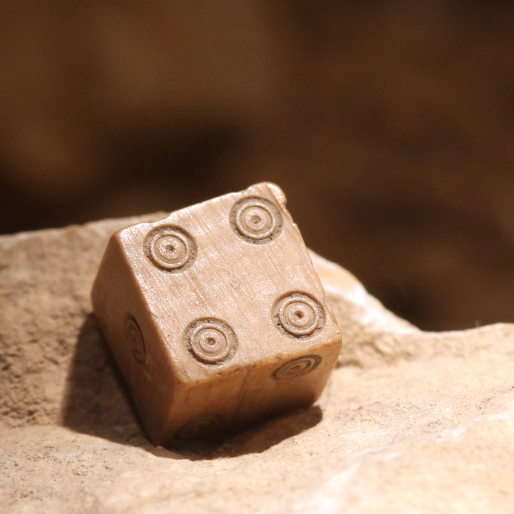 Dice. On display at Vidy Roman Museum